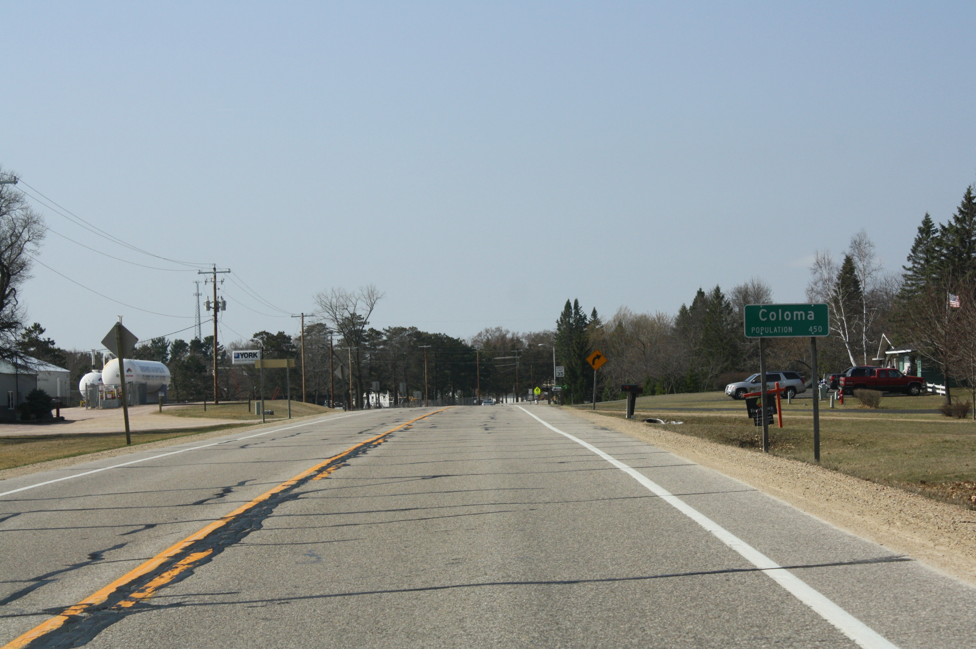 Looking west at the sign for Coloma, Wisconsin on Wisconsin Highway 21.